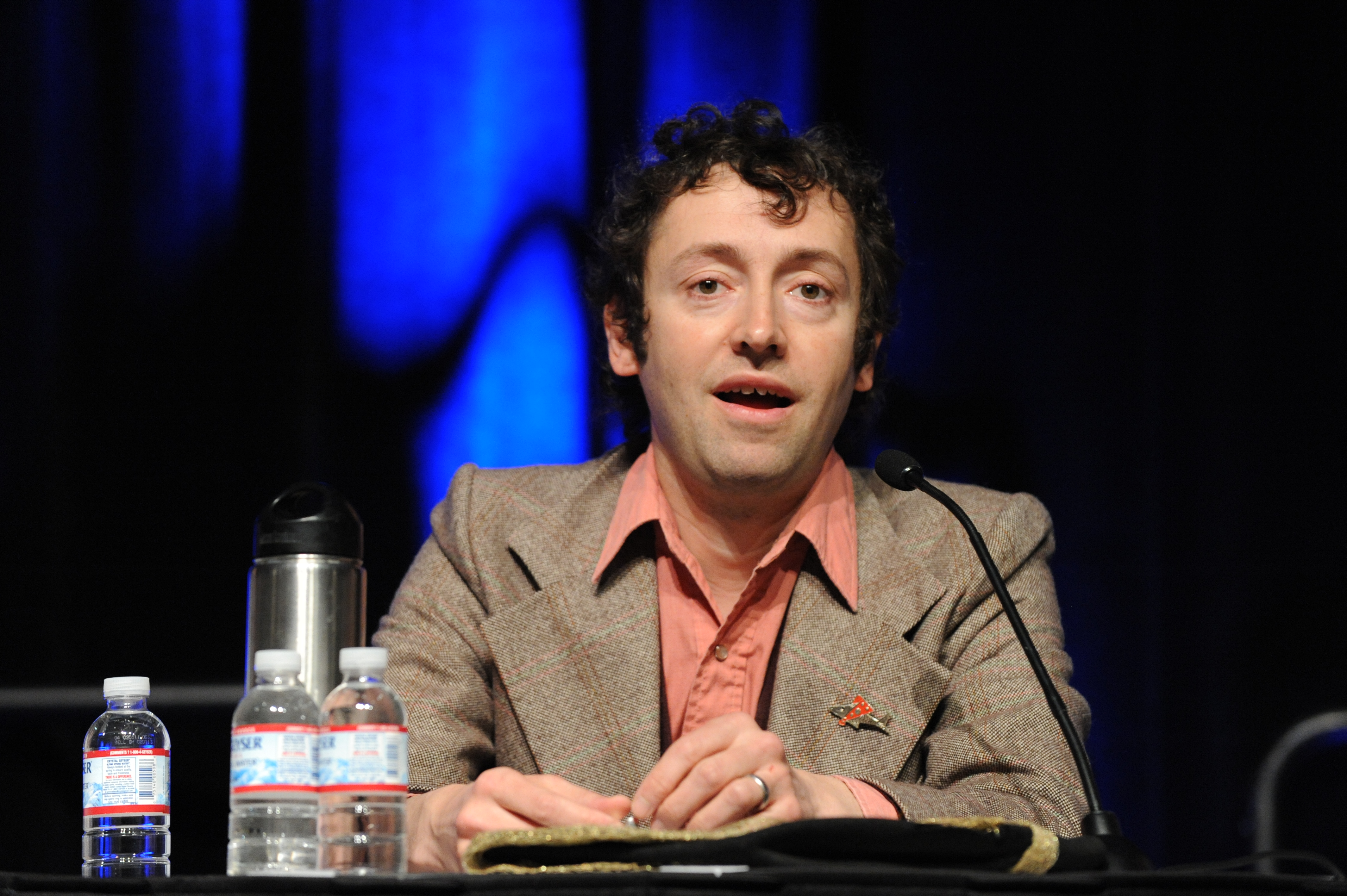 Daniel James at the Game Developers Conference in 2011 (second day), in the Moscone North Hall.